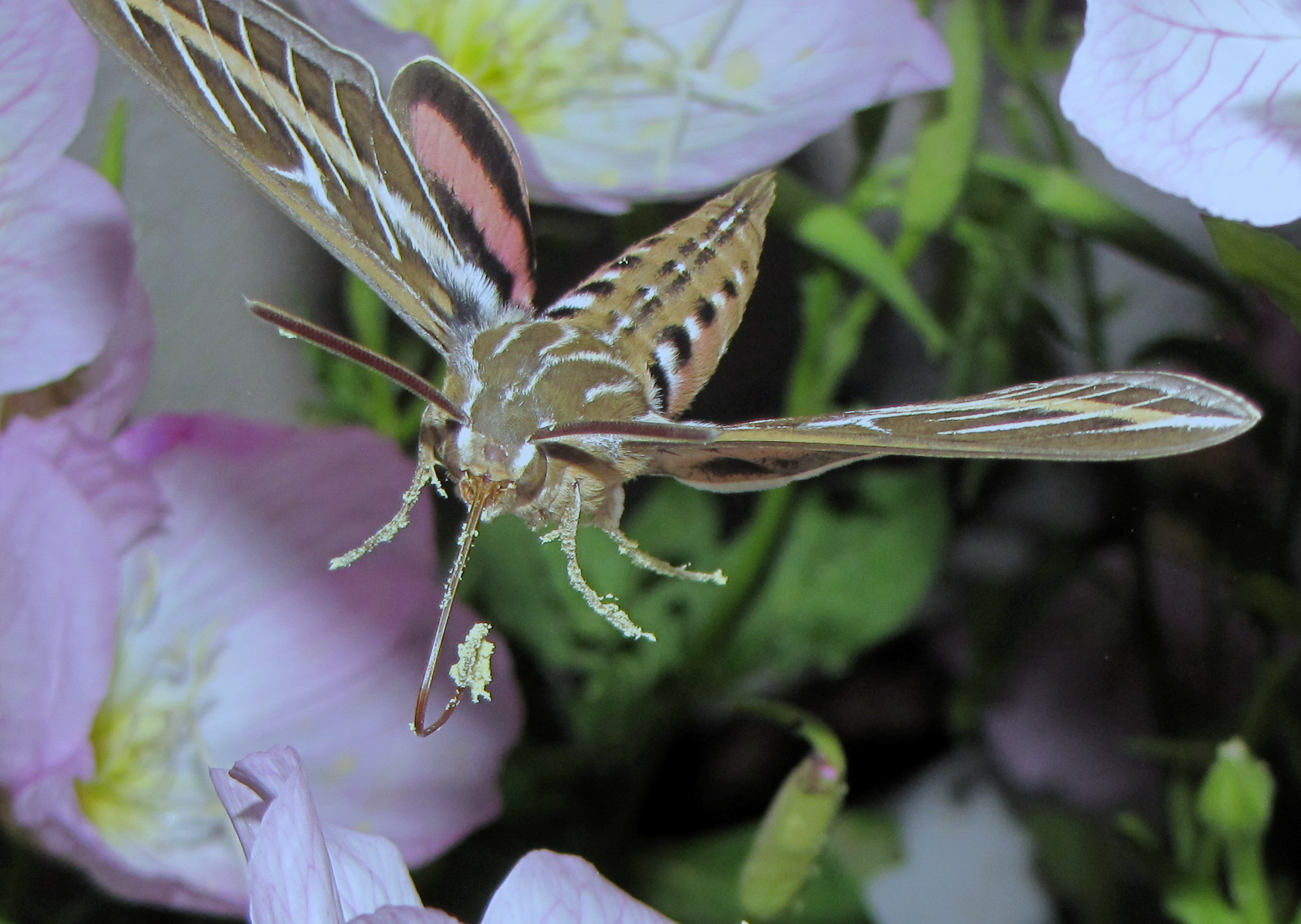 Image of White-lined sphinx at flight over Evening primroses.